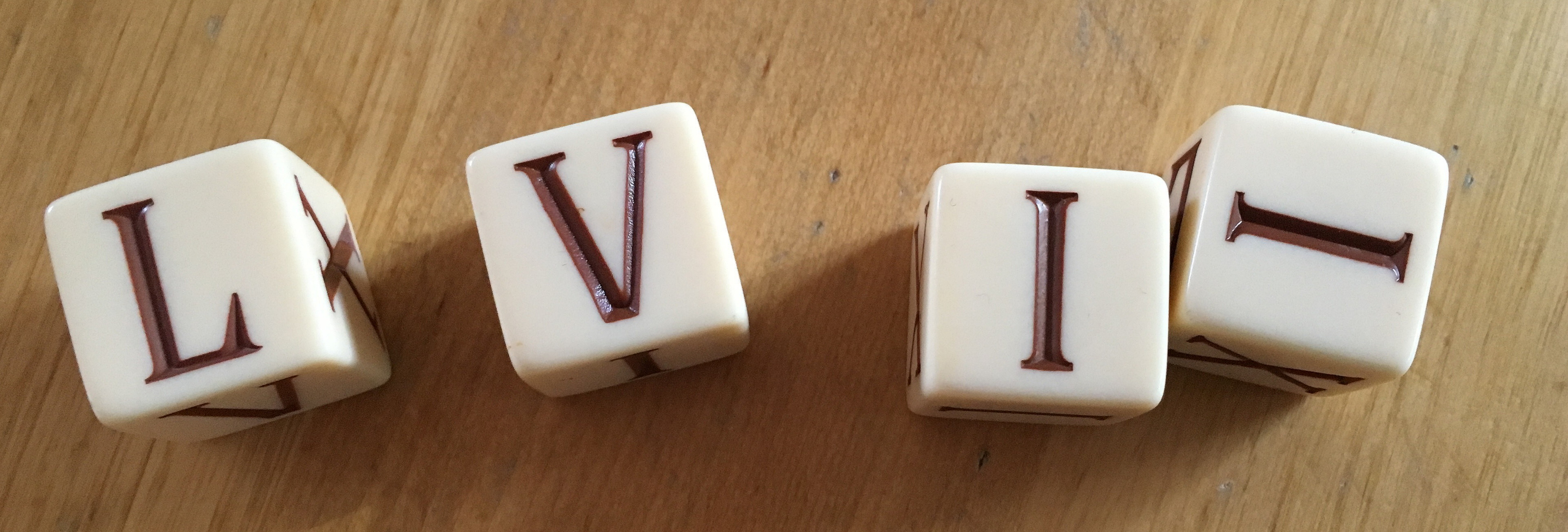 a dice game with ancient roman numbers